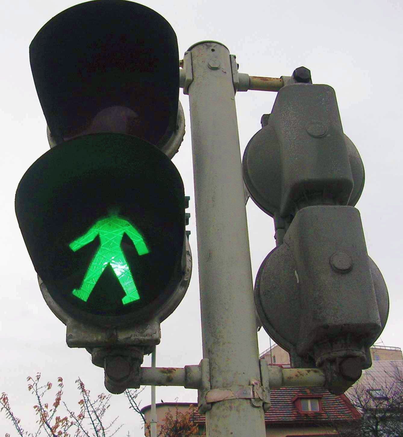 Traffic lights, Prague.